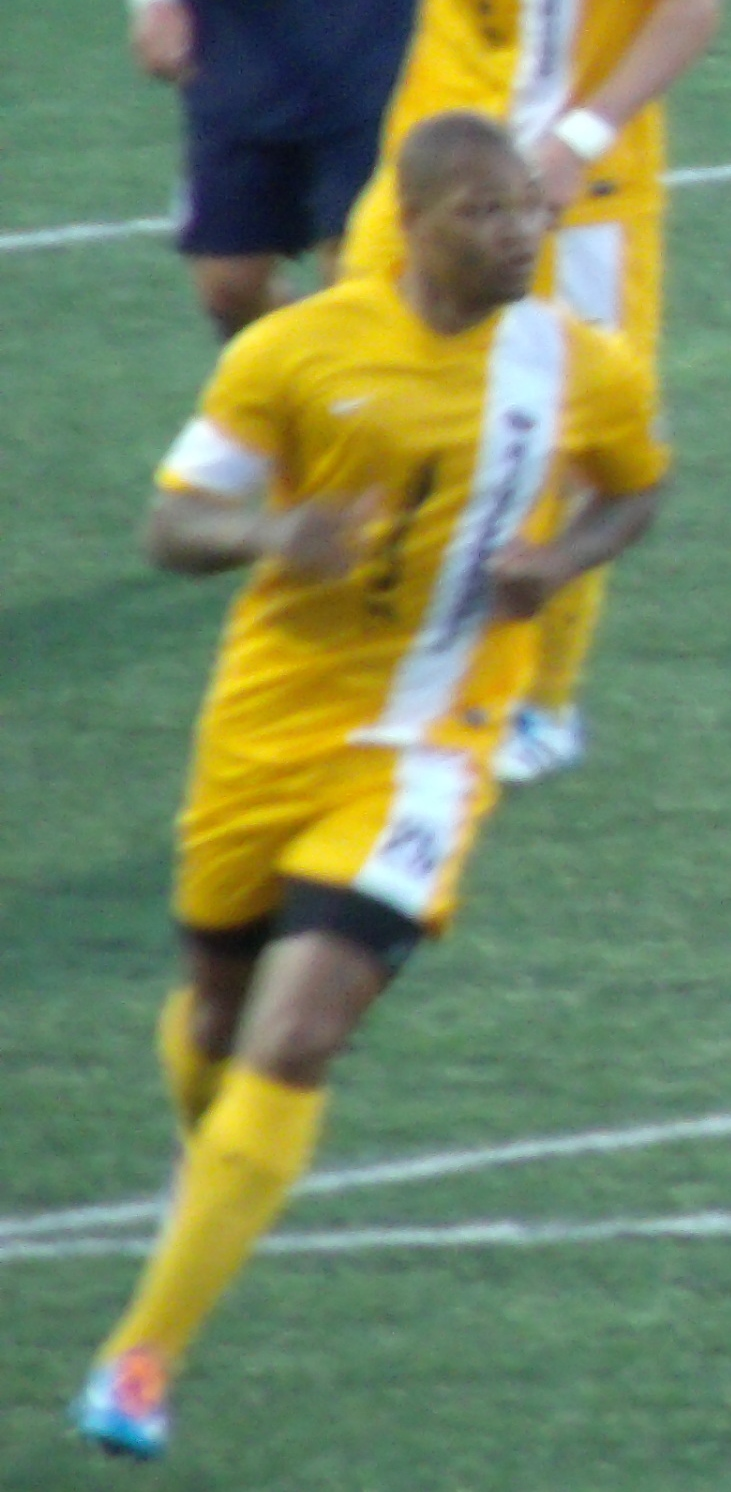 Pittsburgh Riverhounds vs. Wilmington Hammerheads 4/12/14